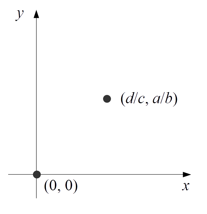 Two equilibrium points in predator-prey Lotka-Volterra equations shown below: d x d t = a x − b x y {\displaystyle {\frac {dx}{dt =ax-bxy} d y d t = c x y − d y {\displaystyle {\frac {dy}{dt =cxy-dy}